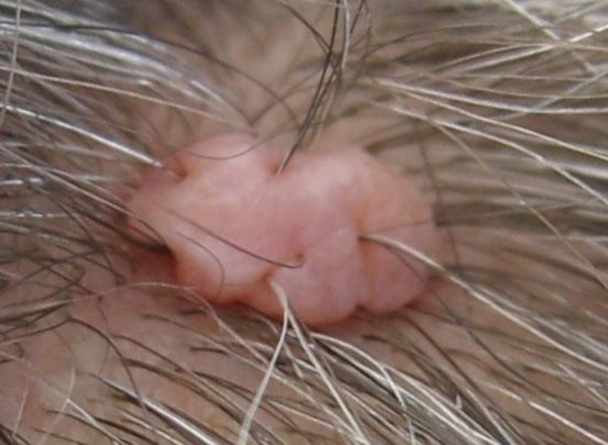 Nevus sebaceous on the scalp.